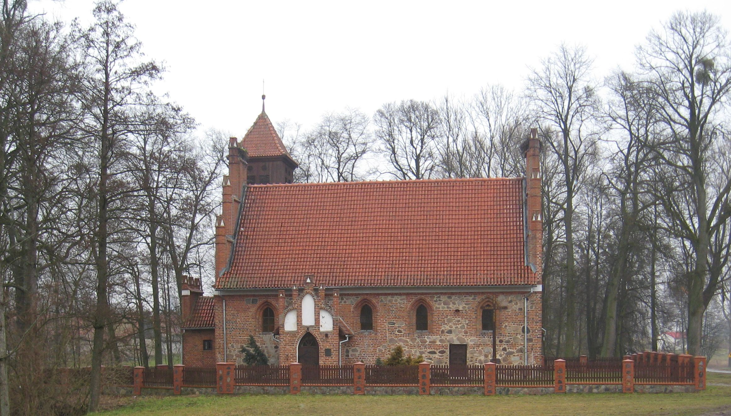 Church in the Village Asuny in Poland.